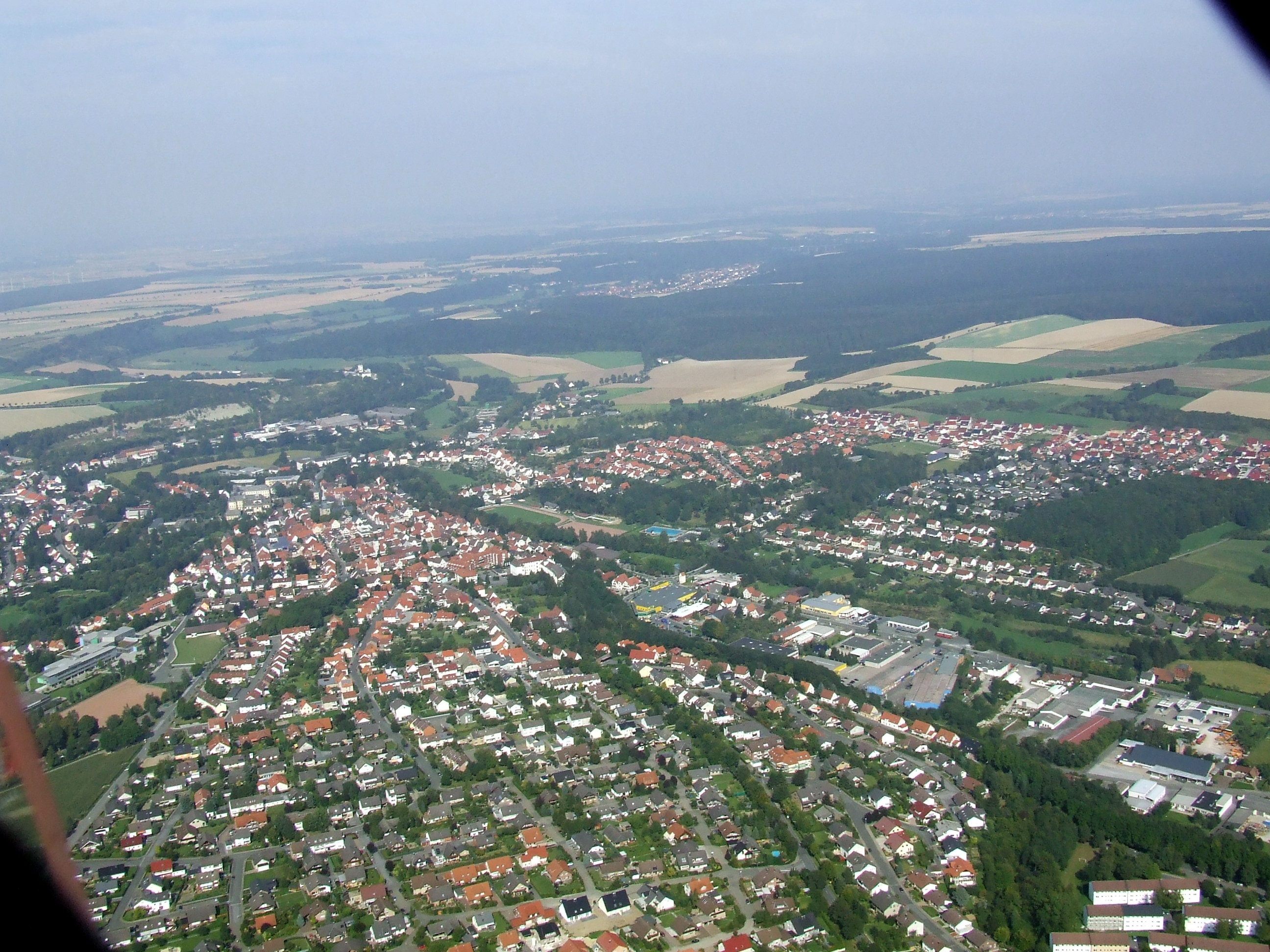 Aerial view over Büren